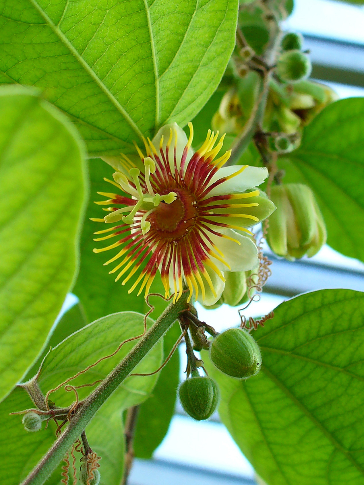 Passiflora holosericea, Passifloraceae, flower; Botanic Garden Universiy Tübingen, Germany.